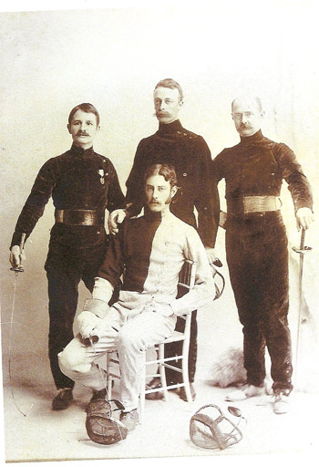 American fencers in 1891. standing l to r: William Scott O'Connor, Charles Tatham, C. C. Nadal seated is Albertson Van Zo Post